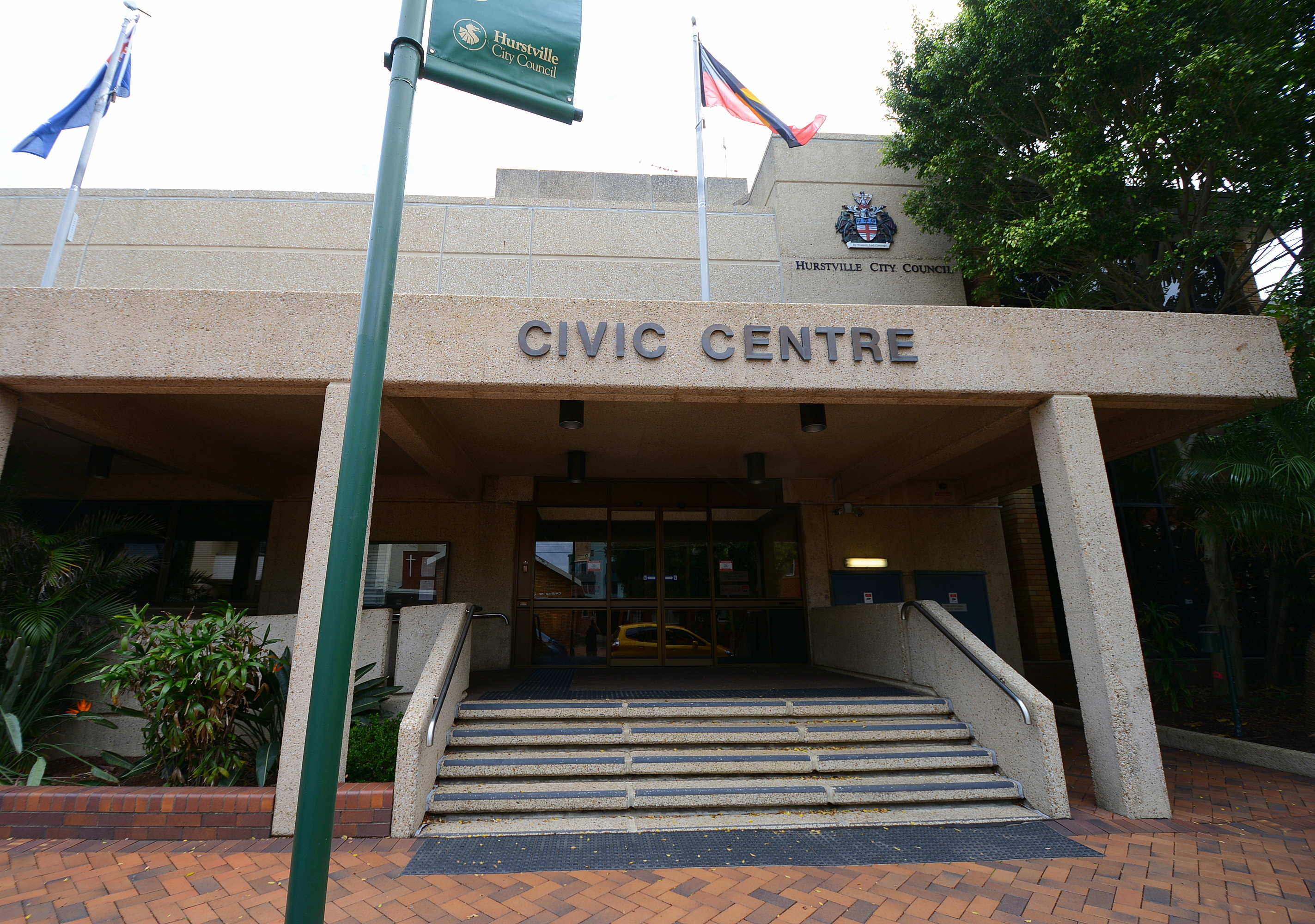 Civic Centre, Hurstville, Sydney